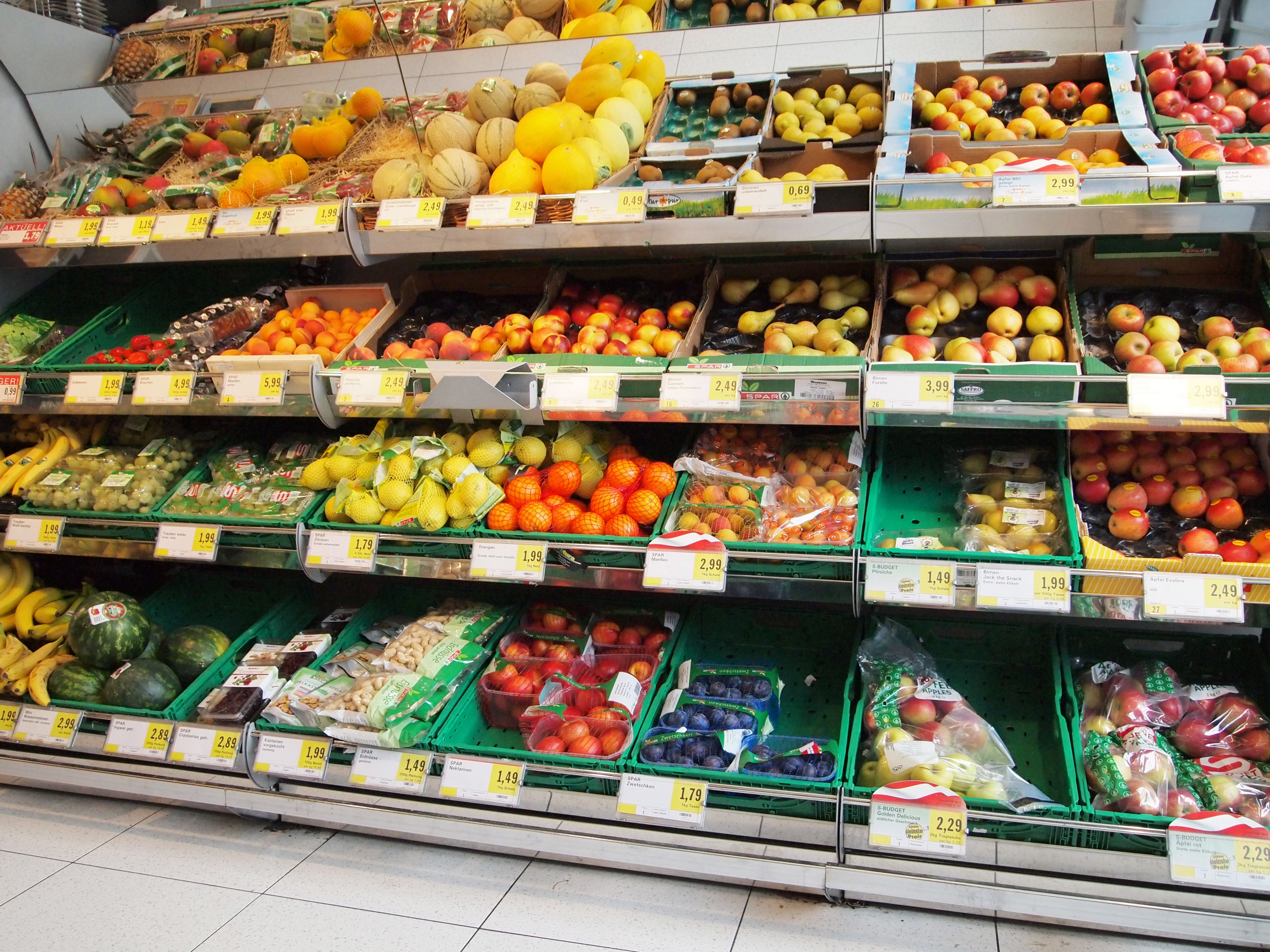 Fruits in SPAR shop, Ehrwald. This photograph was taken with a Olympus E-PL1.